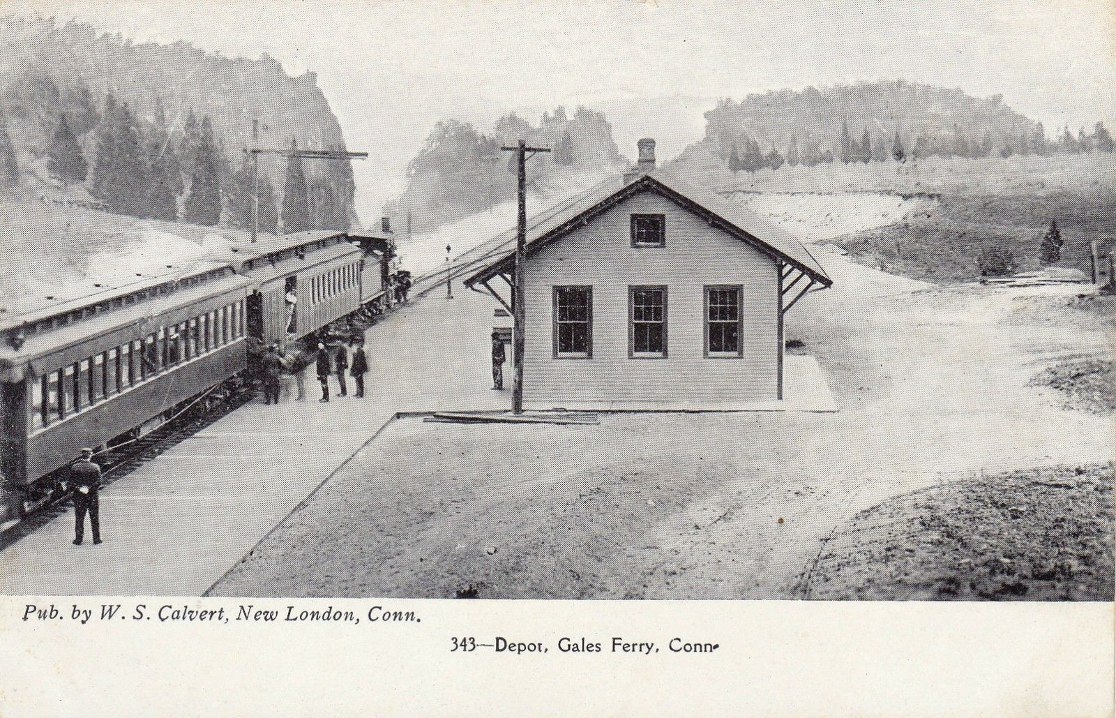 Early divided back postcard of Gales Ferry station